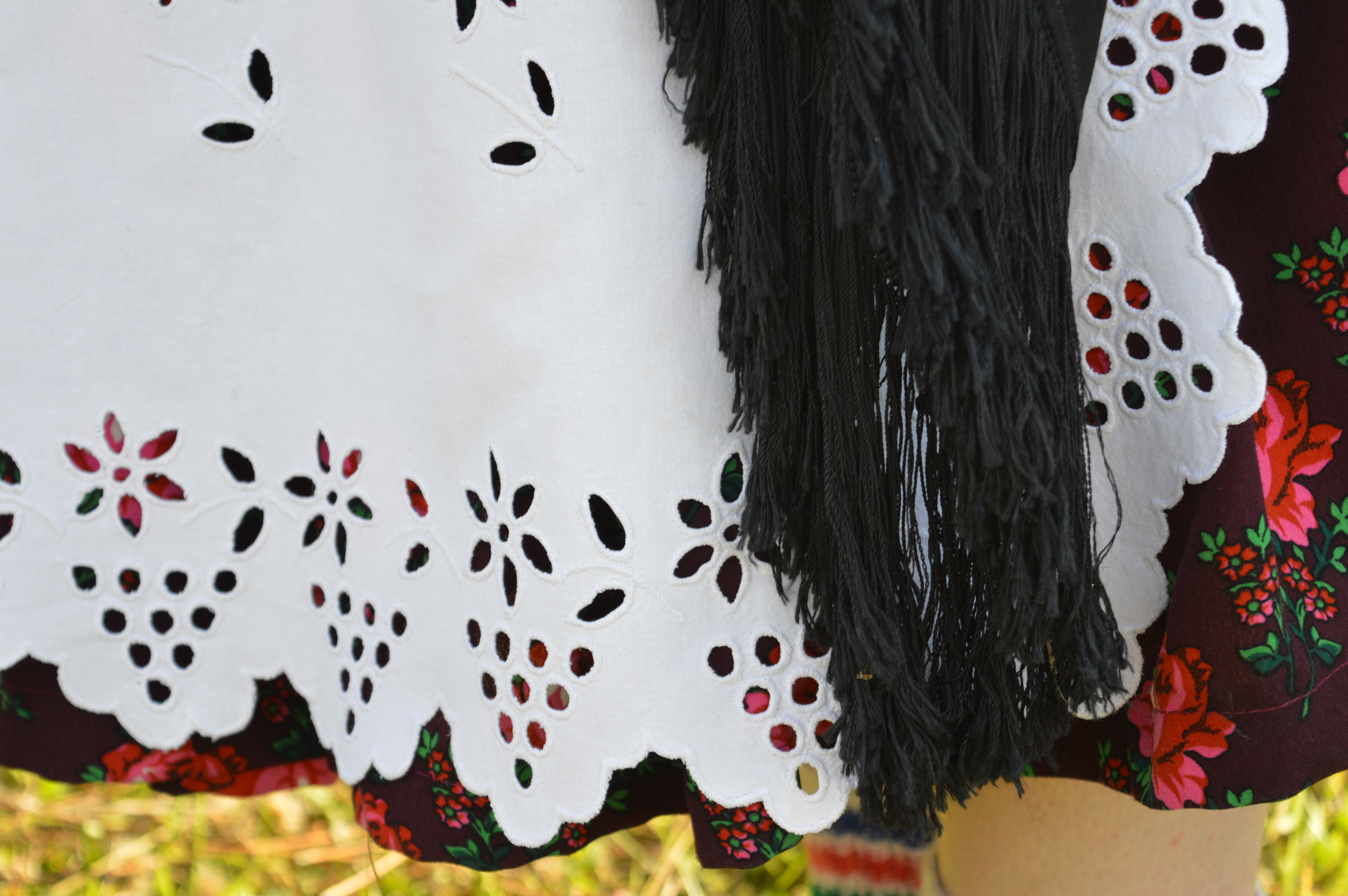 Members of the "Grojcowianie" folk music group presenting traditional Beskid Żywiecki clothes